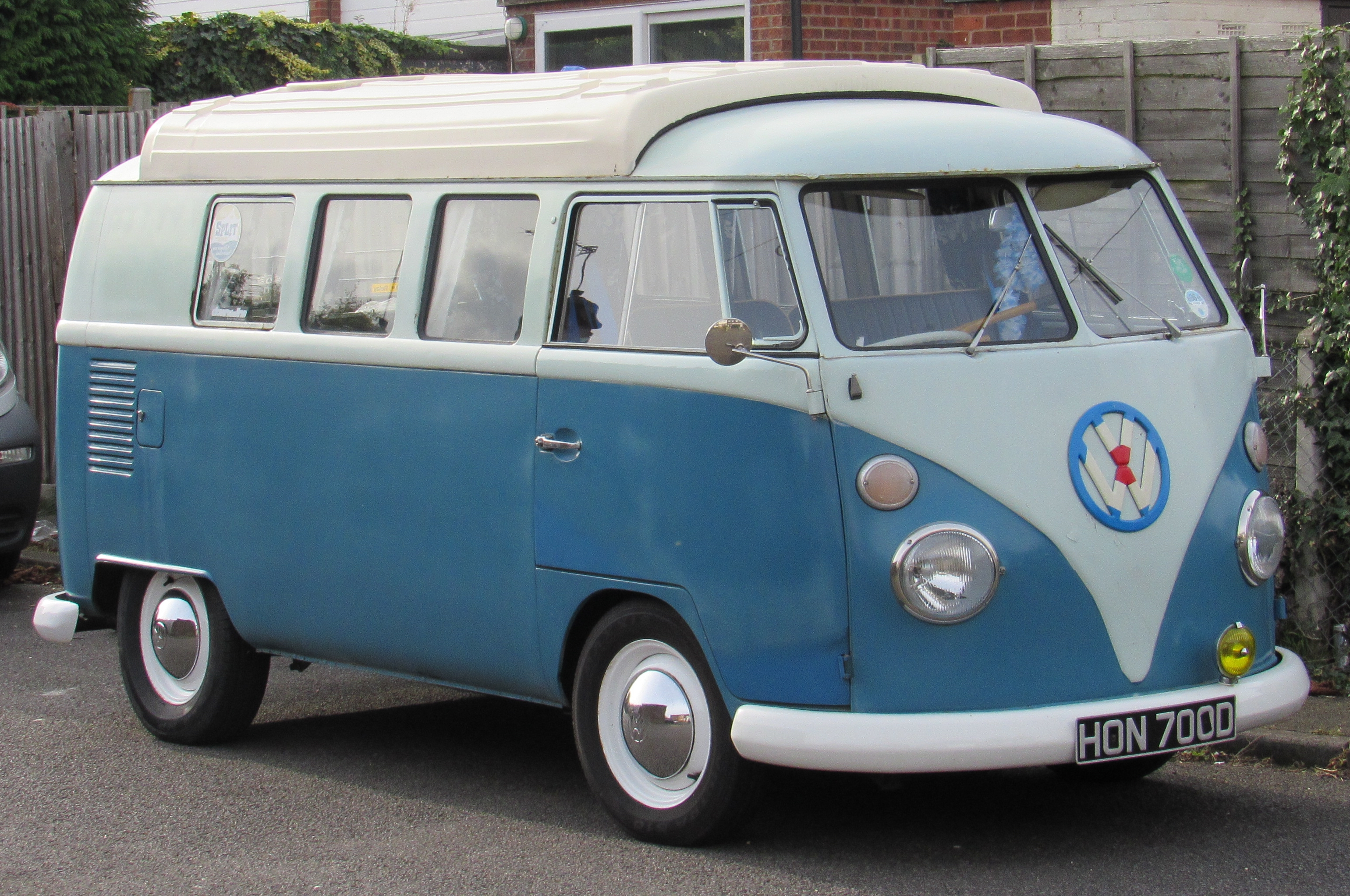 1966 Volkswagen T1 2.0 Front Taken in Warwick